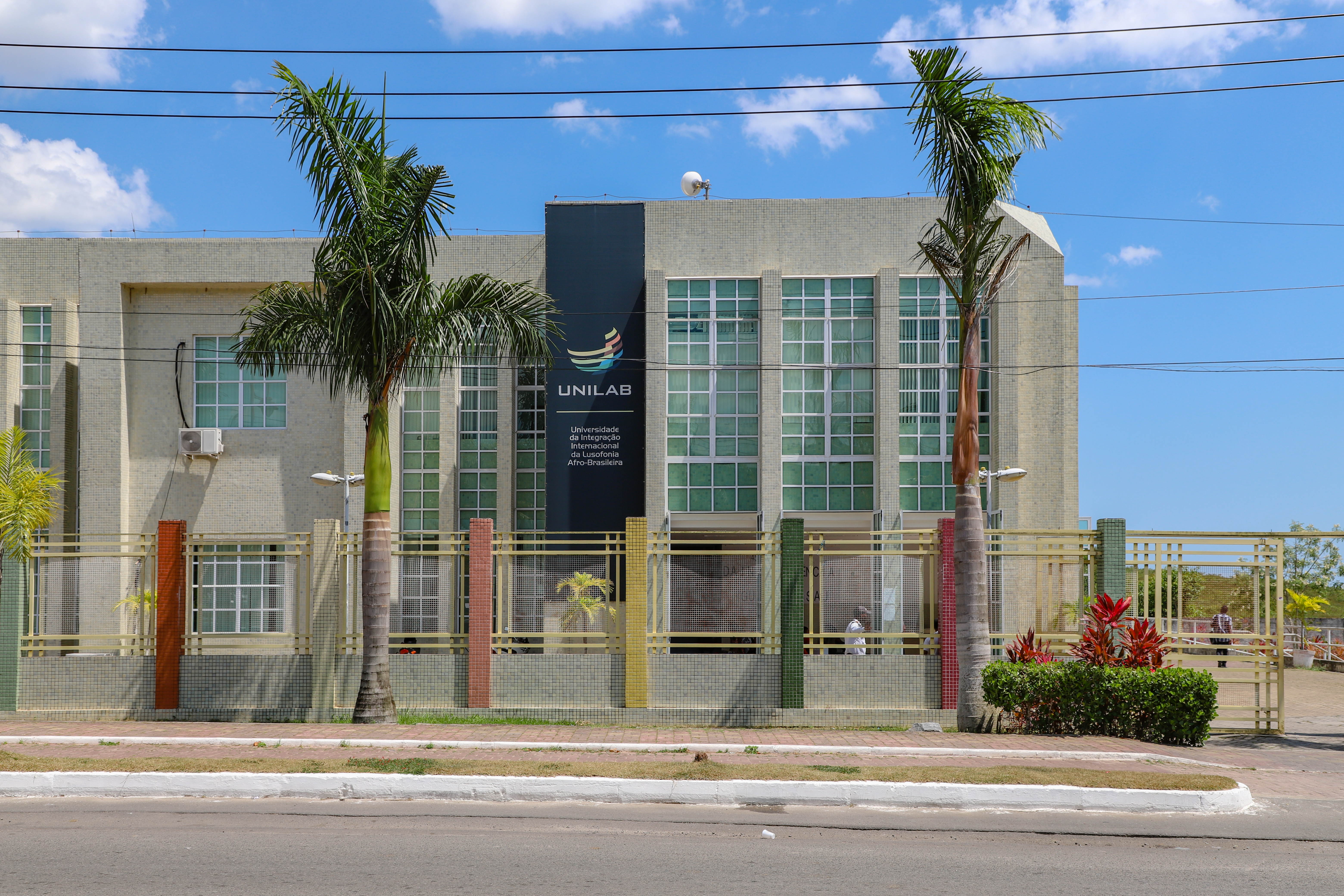 Universidade da Integração Internacional da Lusofonia Afro-Brasileira, Campus dos Malês, São Francisco do Conde, Bahia, Brazil.